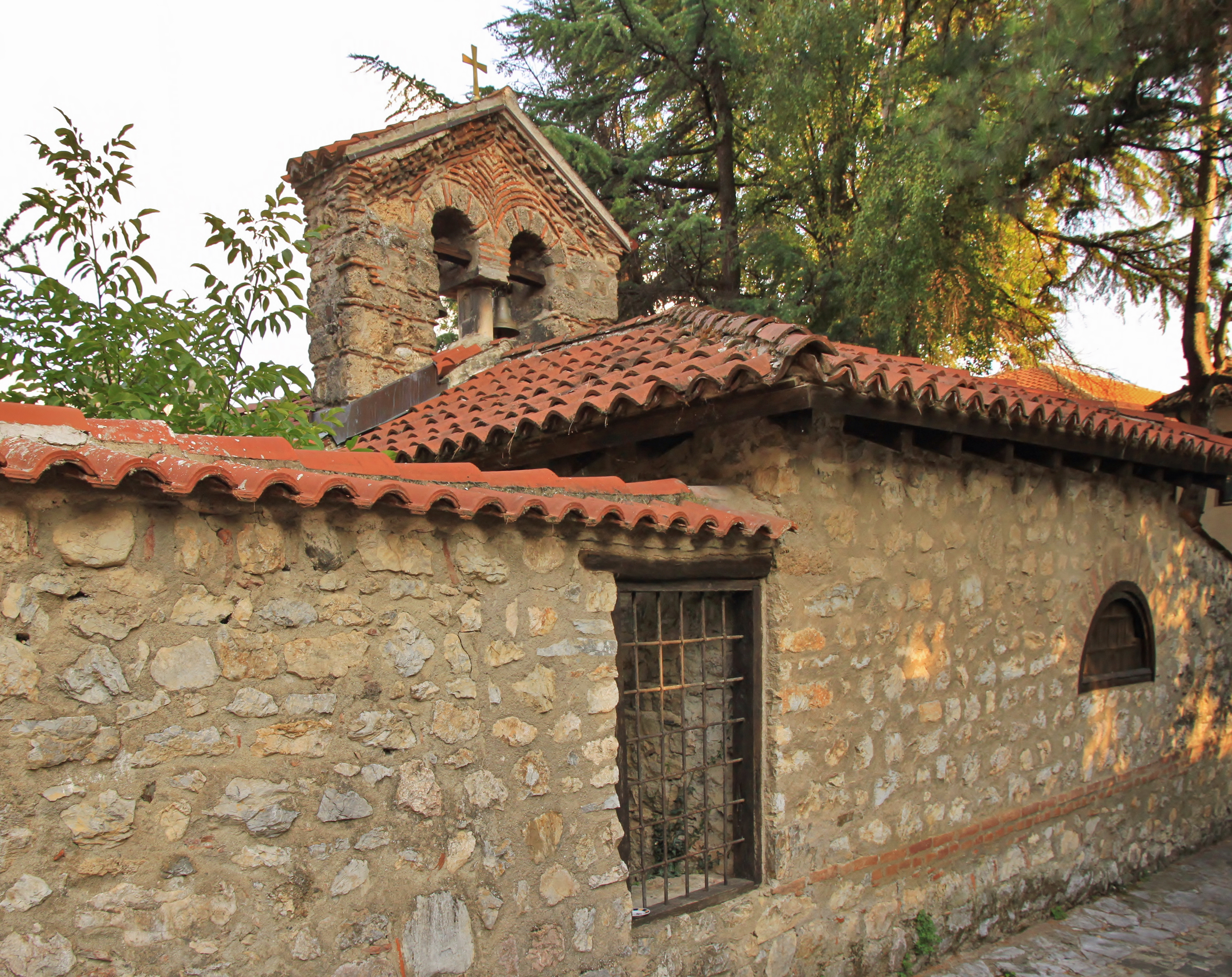 Holy Virgin Mary Bolnička church. Ohrid, Macedonia.